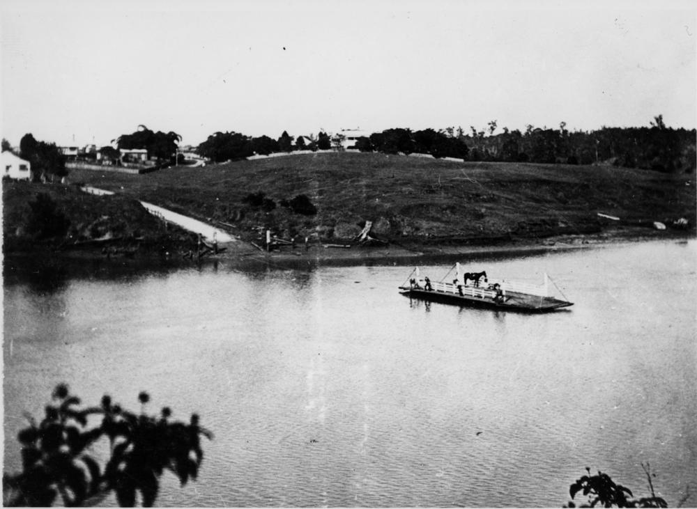 Brisbane River punt crossing from Chelmer to Indooroopilly in 1906 Ferry crossing the Brisbane River from Chelmer to Indooroopilly. A horse and rider, plus several passengers are being transported on the punt. In the background there is cleared pasture land and some houses dotted along the hill.